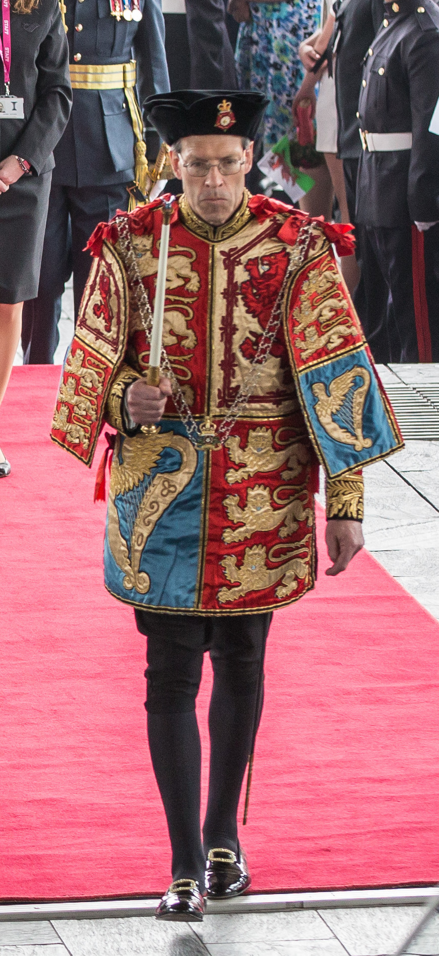 Thomas Lloyd, OBE, DL, FSA, Wales Herald Extraordinary, at the opening of the National Assembly for Wales